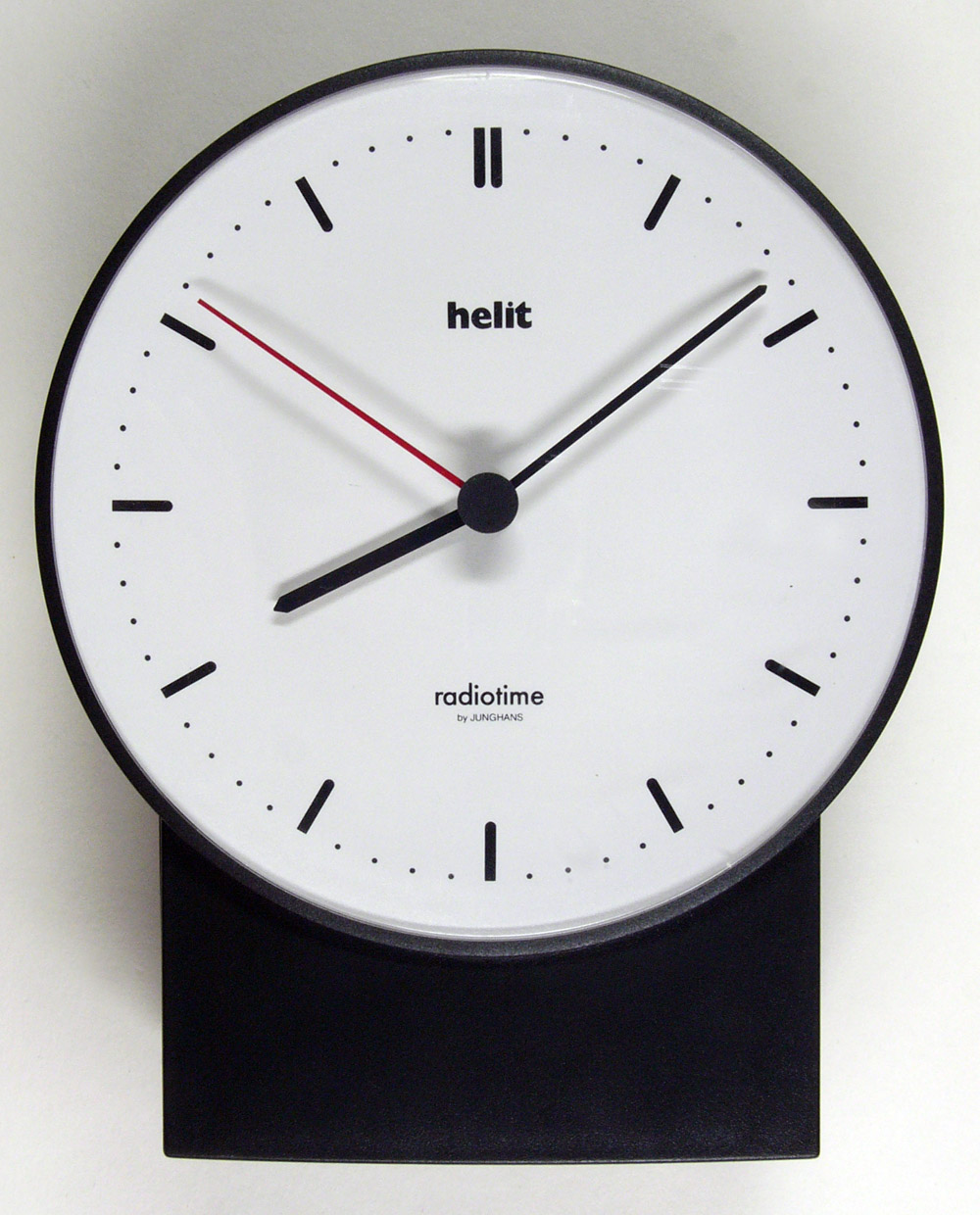 Clock, controlled by radio